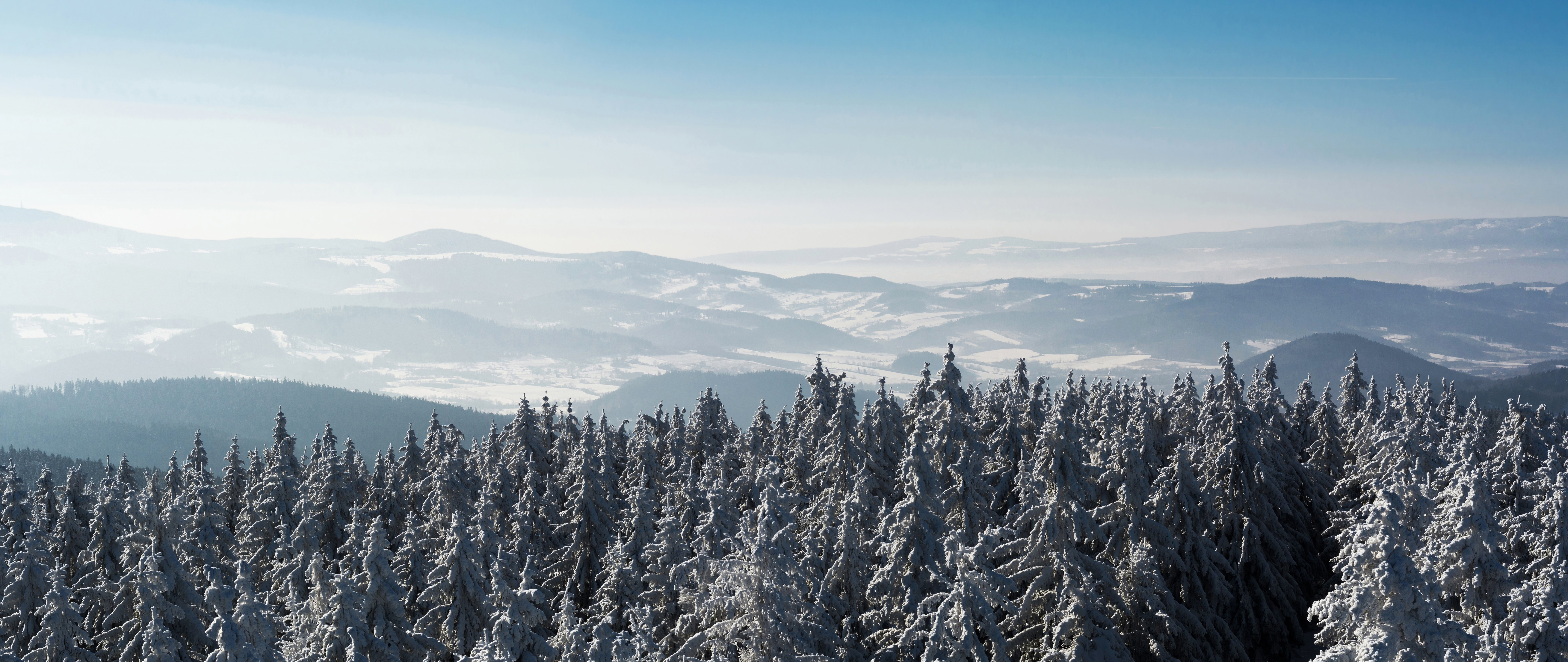 Golden Mountains (Sudetes), Poland, panorama from Borówkowa This is a photography of Natura 2000 protected area with ID PLH020096